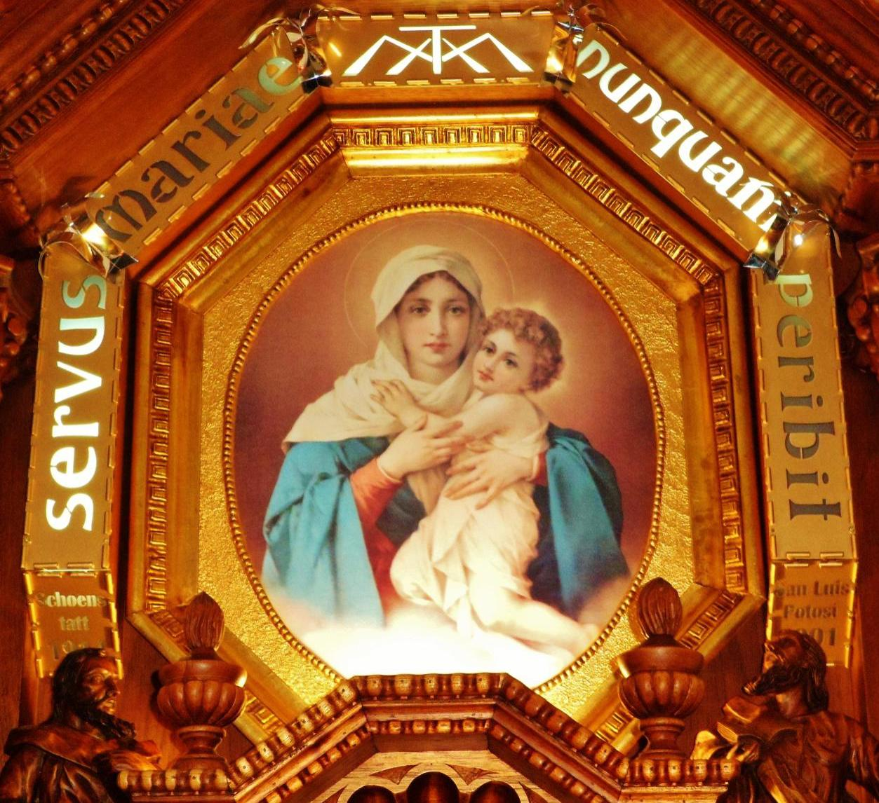 Our Lady of Schoenstatt